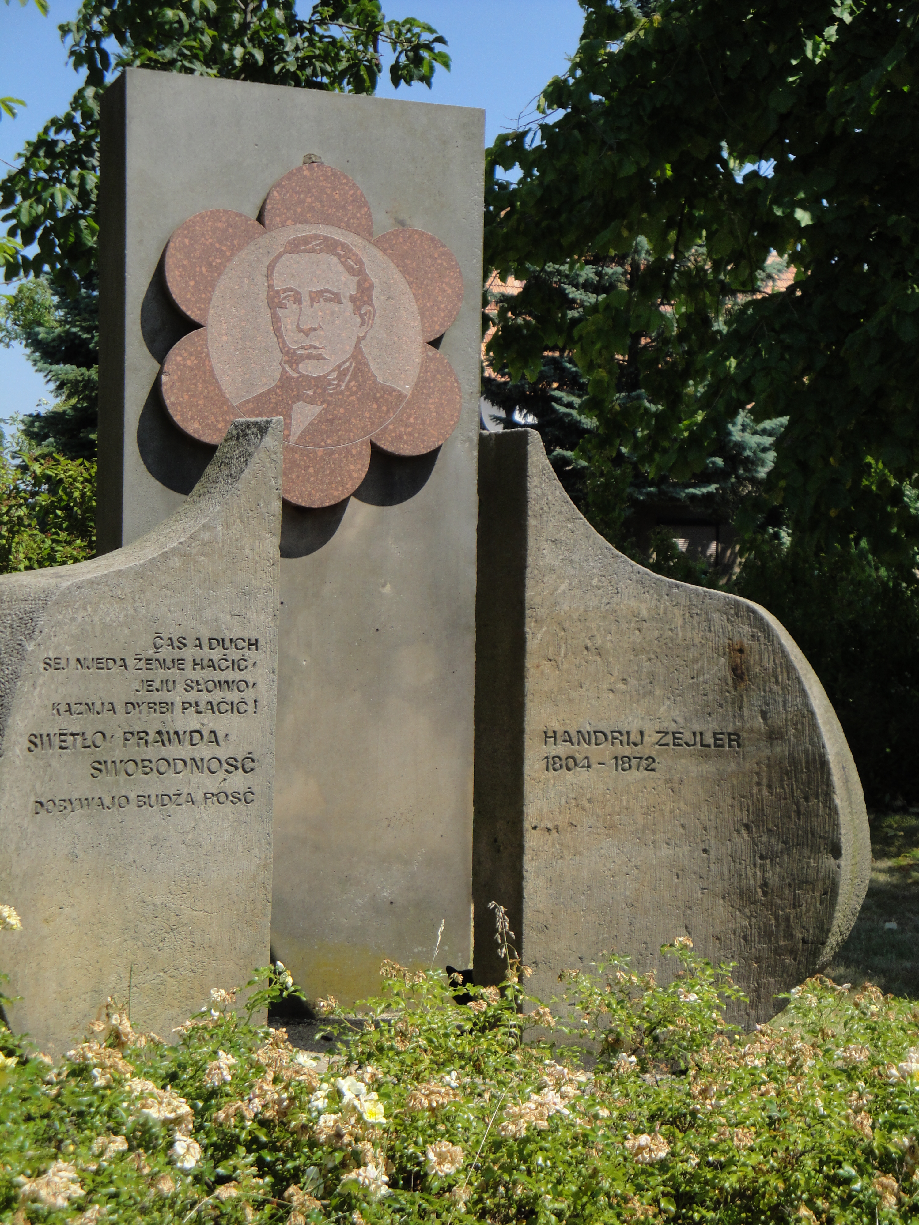 Handrij Zejler Monument in Słona Boršć/Salzenforst.